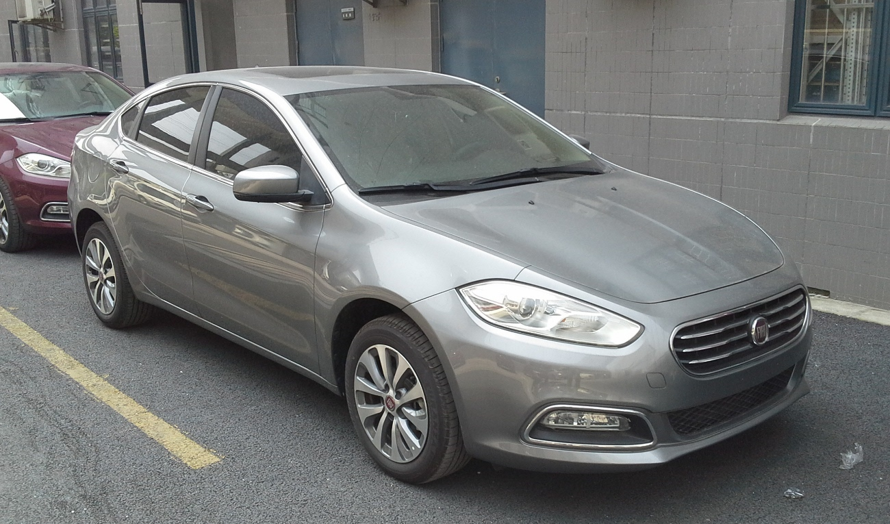 Fiat Viaggio photographed in Shanghai, China.